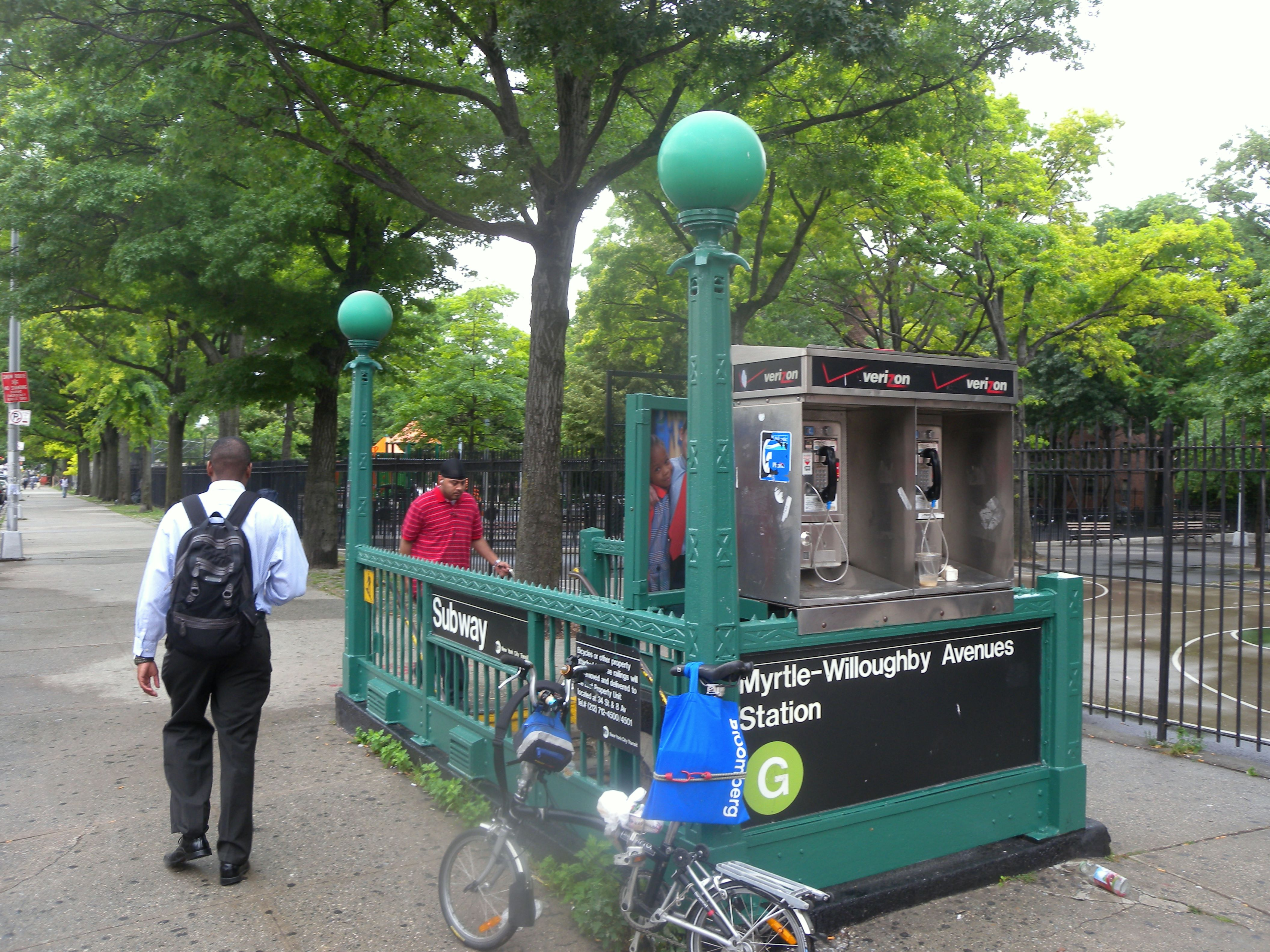 Looking west at station stair in front of Marcy Playground on a cloudy day. Bicycle is photographer's.